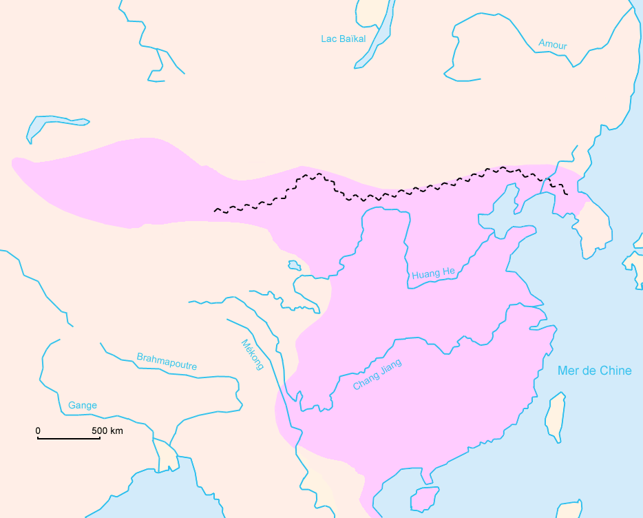 PNG map of the Great Wall : Western Han dynasty (206 BC - 25 AD) only. It includes french names.